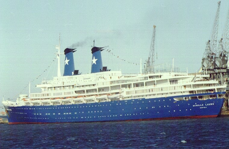 Achille Lauro